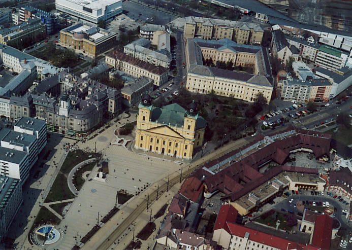 Debrecen - Hajdú-Bihar megye - Hungary - Europe